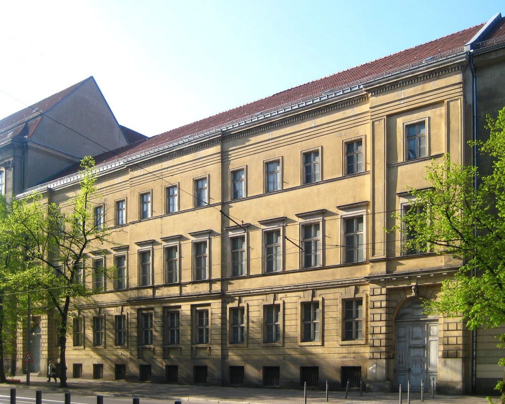 Old lodge building at Oranienburger Straße No. 71-72 in Berlin-Mitte. It was built from 1789 to 1791 by Christian Becherer for the Grand Lodge of Freemasons in Germany and is the only preserved building of the architect in Berlin. It has been designated as a historic landmark.